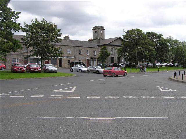 Draperstown, Derry / Londonderry Draperstown (Baile na Crois in Irish) is a village in County Londonderry, Northern Ireland, in the Sperrin Mountains, named after the London Drapers' Company. It is 12 km north-west of Magherafelt in the Upper Moyola Valley. It is commonly referred to by locals as Ballinascreen (Irish: Baile na Scrine) - the parish name of the area.